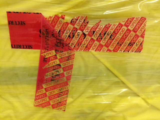 Security tape removed